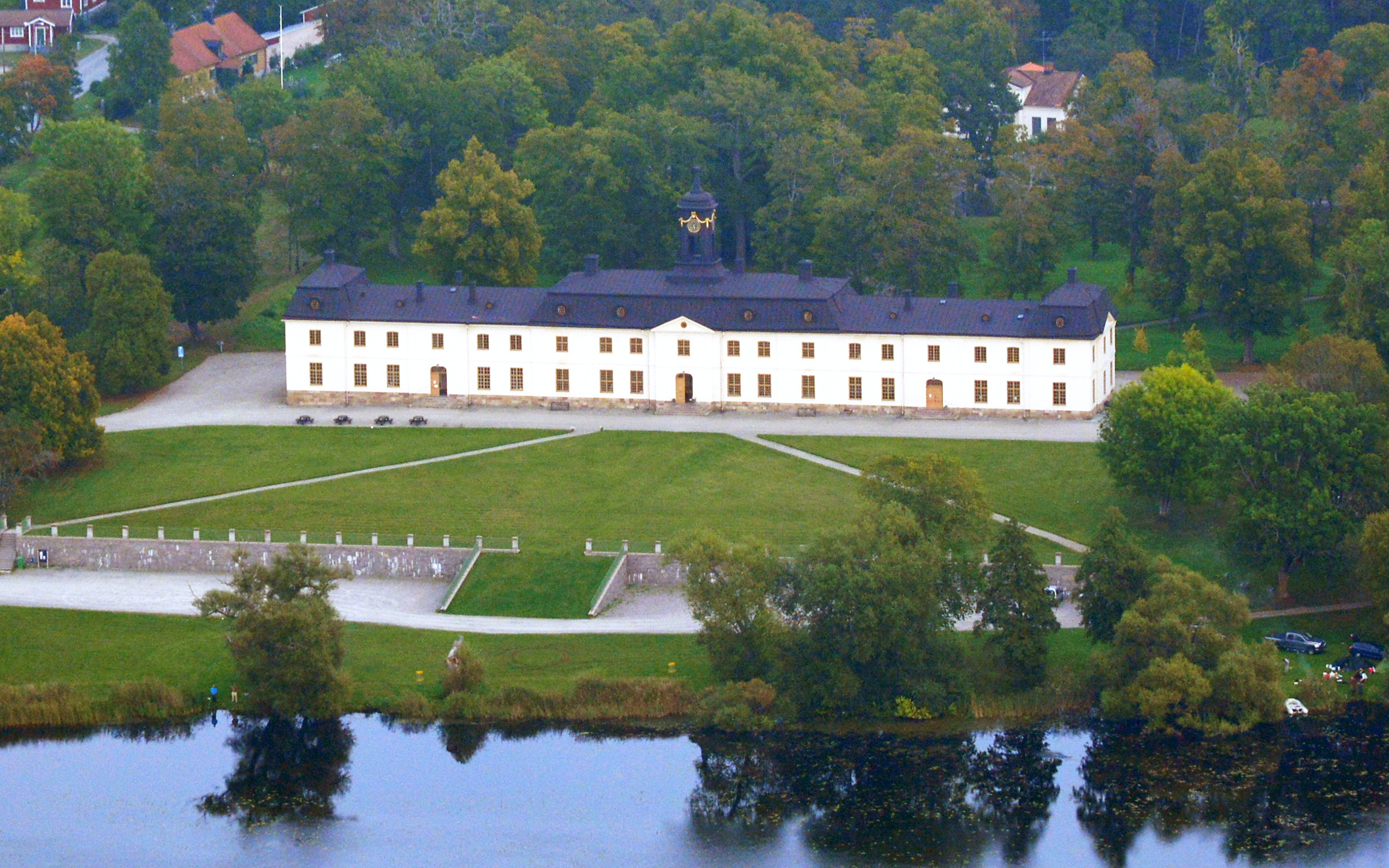 Svartsjö Palace in Svartsjö on Färingsö in Ekerö municipality.